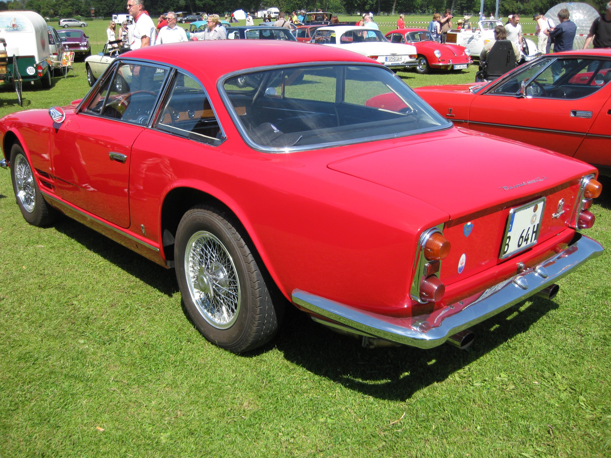 1964 Maserati Sebring 3500 GTiS, Series I